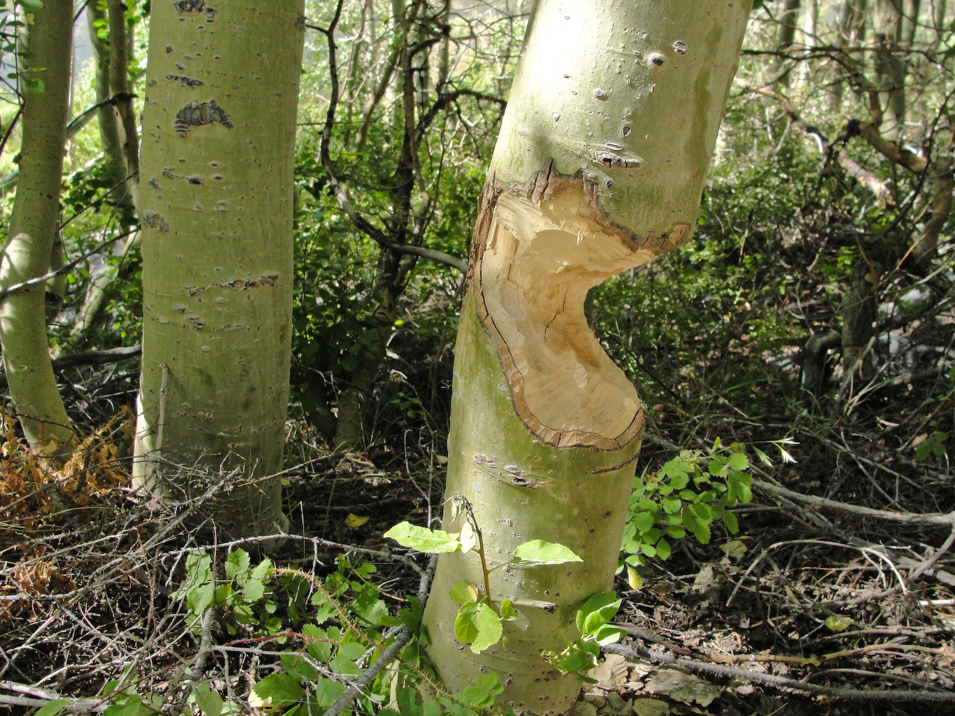 Beaver-chewed aspen on McGee Pass Trail, John Muir Wilderness, Sierra Nevada, California